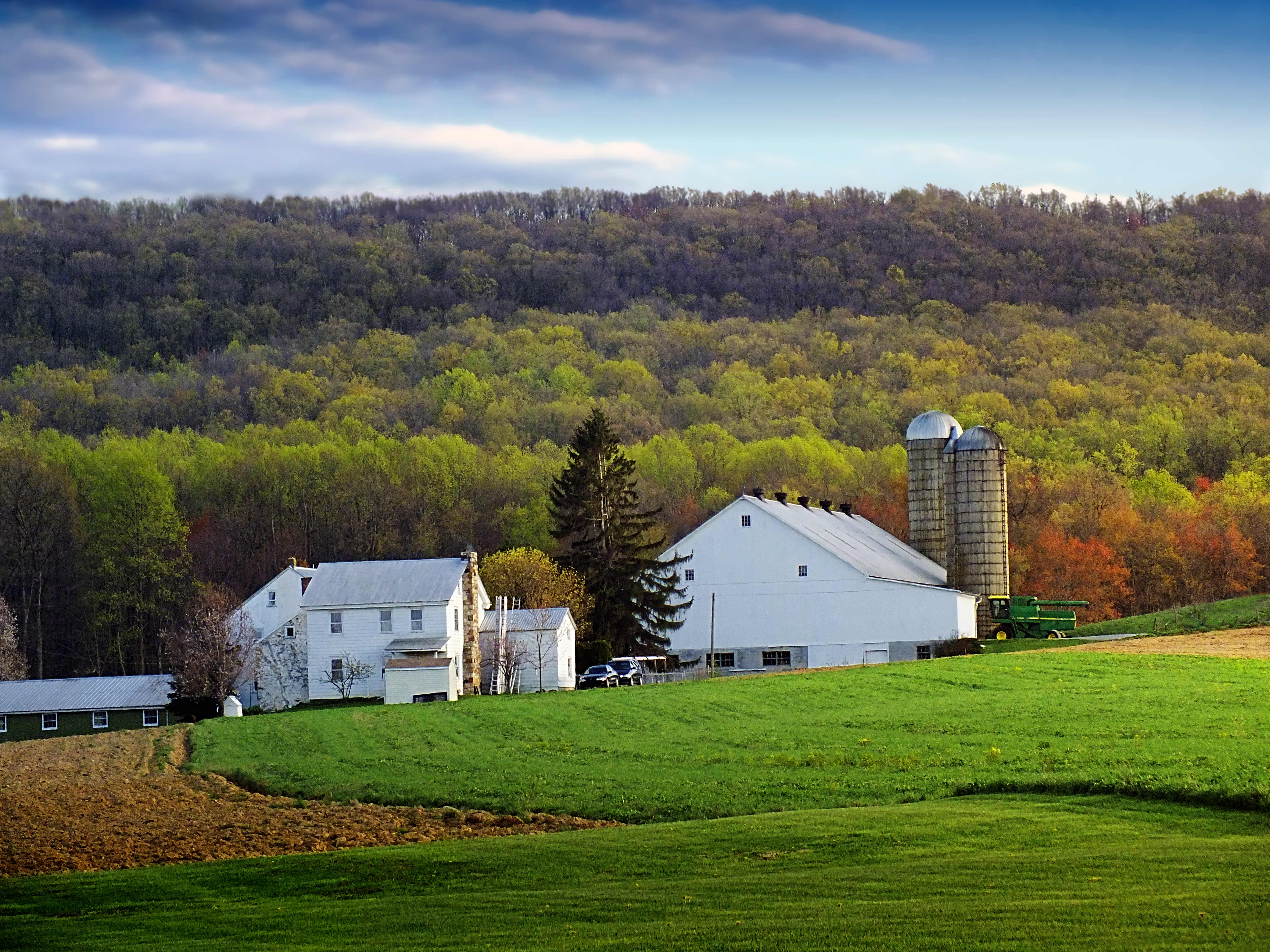 Farmstead, East Earl Township, Lancaster County.